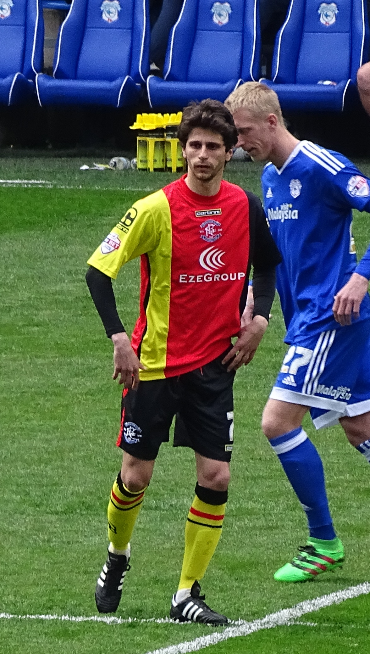 Footballer Diego Fabbrini playing for Birmingham City.